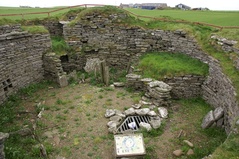 Burroughston Broch, Shapinsay, Orkney, Scotland. Interior seen from east.